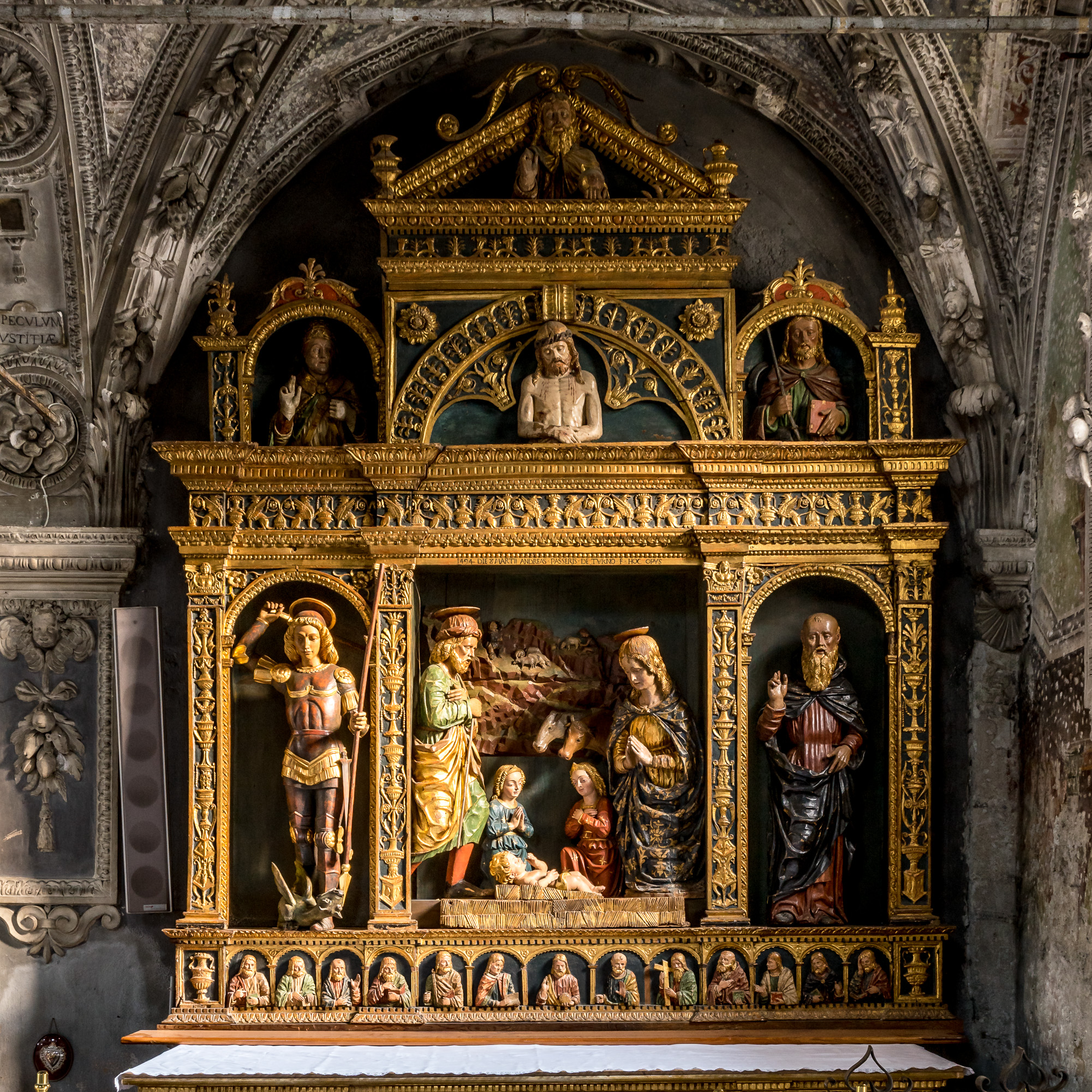 Pietro Bussolo "Altarpiece of the Nativity" Gilted and colored wood, end of XV century St. George Church in Grosio, Italy